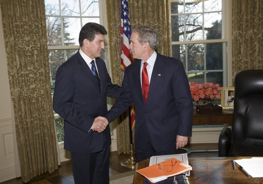 President George W. Bush meets West Virginia Governor Joe Manchin in the Oval Office, Tuesday, Jan. 24, 2006. After 14 coal mining deaths in West Virginia in three weeks, Gov. Manchin's legislative proposals to improve mine safety has been passed by the West Virginia Senate unanimously. White House photo by Eric Draper